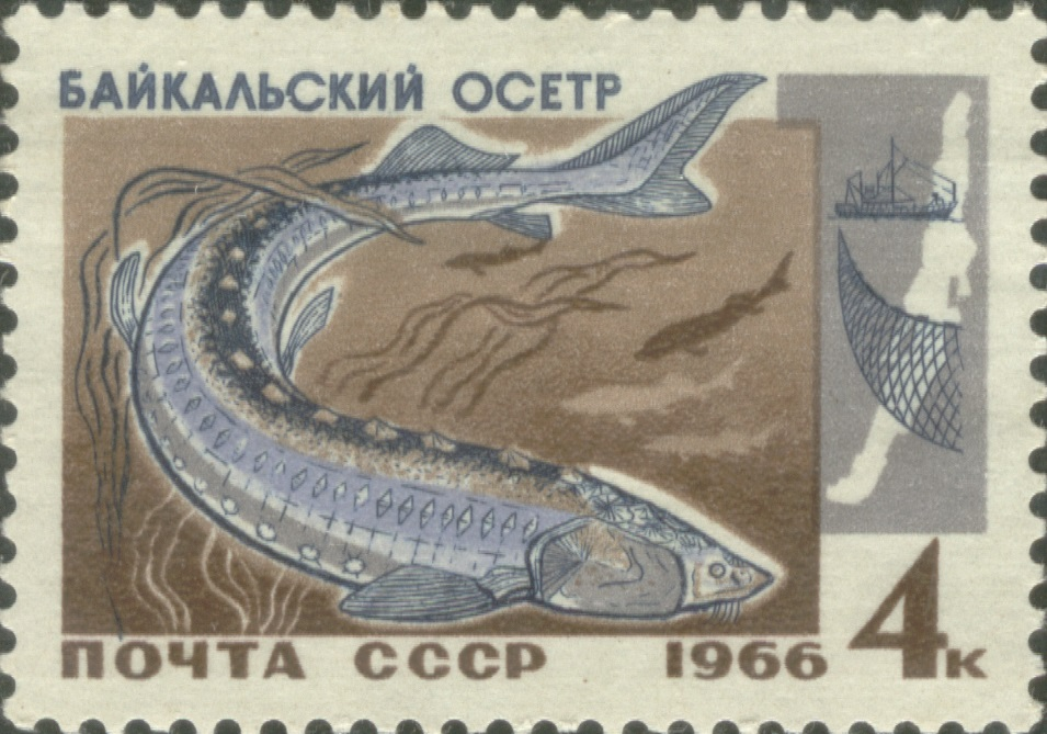 USSR stamp of 1966.09.25; 4 kopecks. Fish resources of Lake Baikal. Baikal sturgeon (Acipenser baeri baicalensis A. Nikolski, 1896) and part of design of 6k stamp.